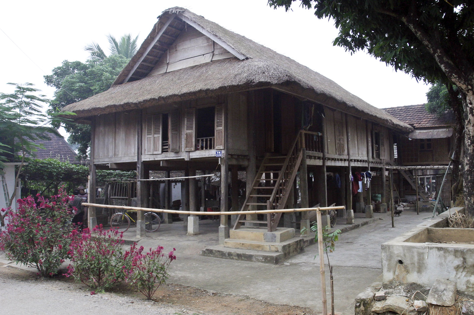 A Thai stilt house